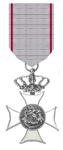 Order of Grimaldi, Knight